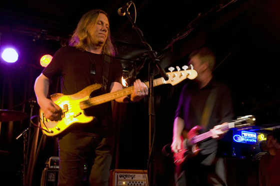 Brian Ritchie A Very Big Gig (benefit for Wayne Goodwin) The Basement, Sydney August 2008